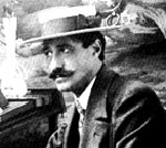 Spanish film pioneer Segundo de Chomon